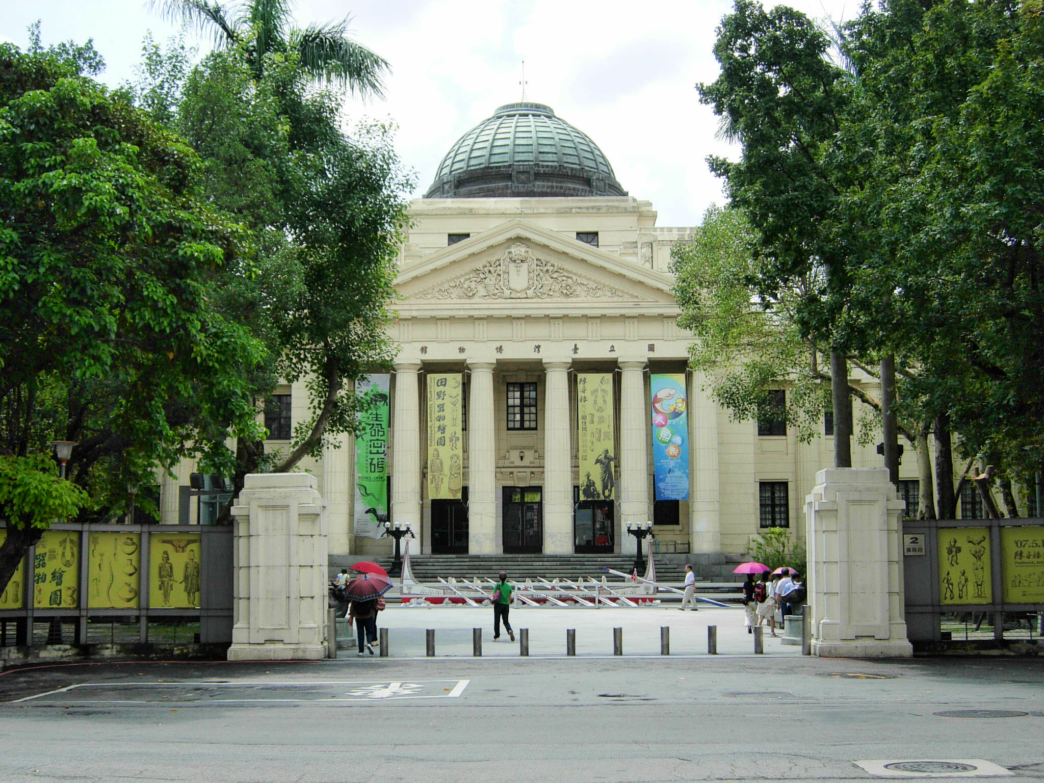 National Taiwan Museum front.中文（台灣）: 國立臺灣博物館前方。